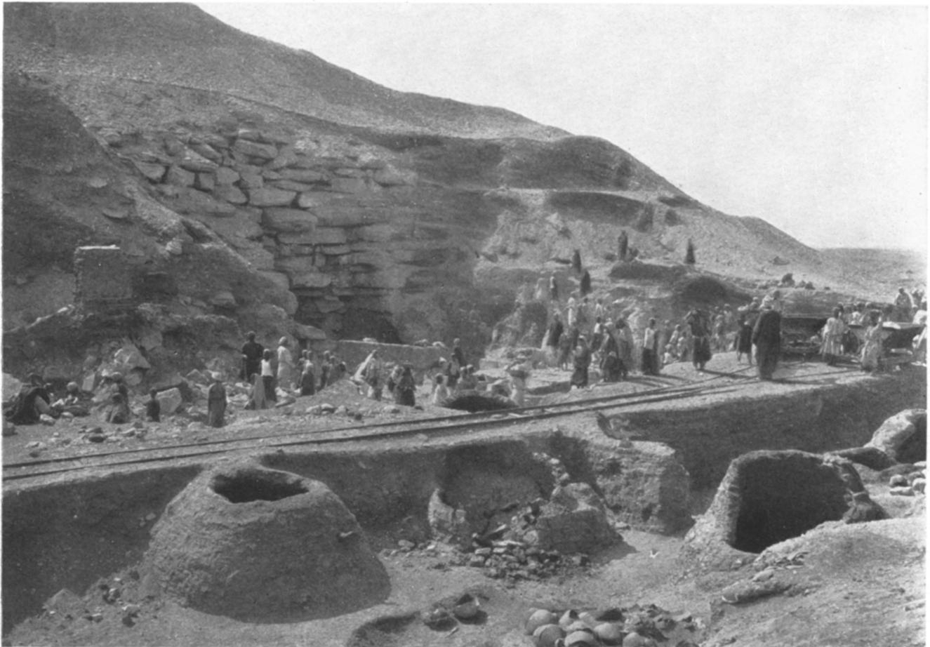 Area around the entrance of the Pyramid of Amenemhat I during the excavation of 1907/08